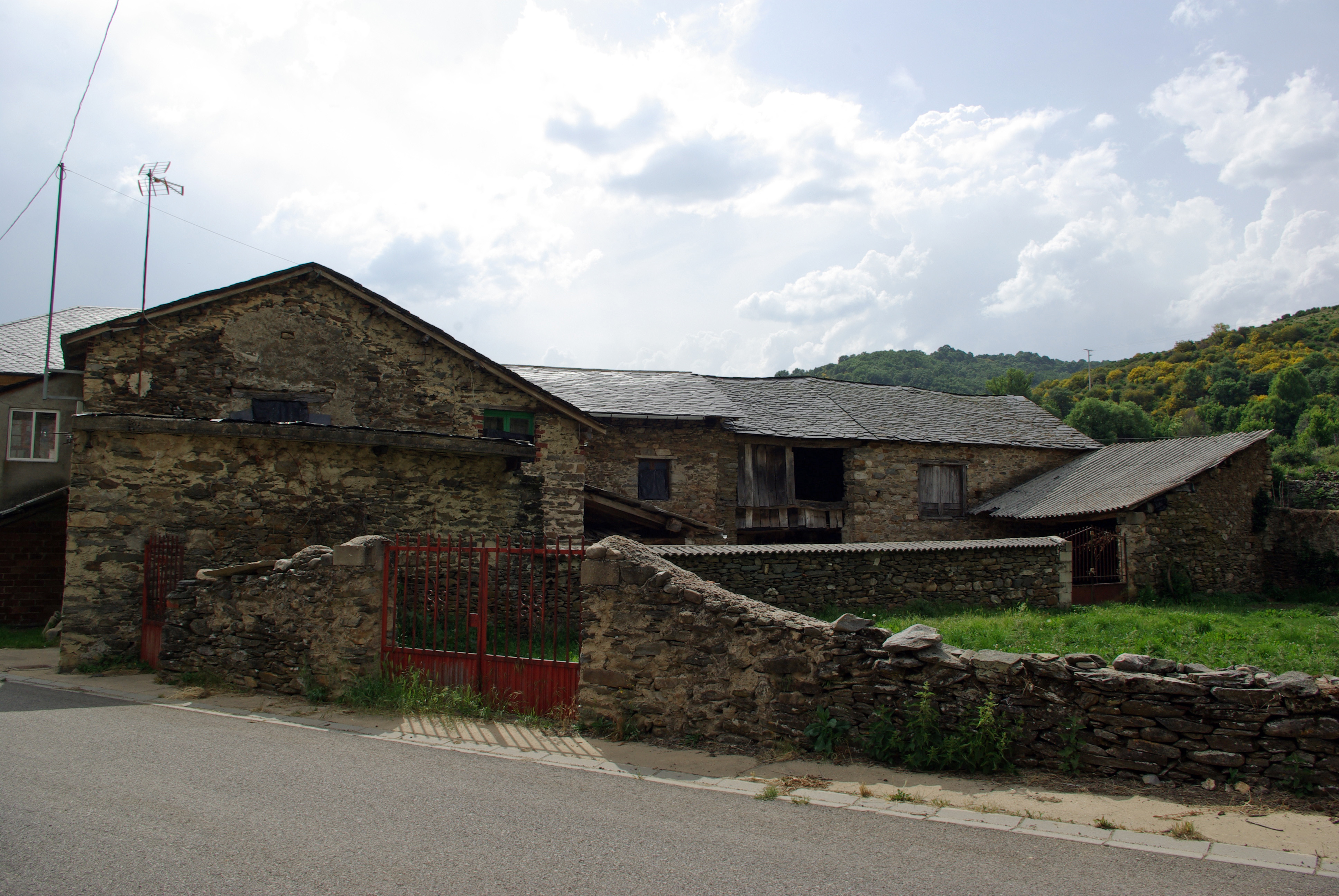 Cirujales (Riello, León, Spain)